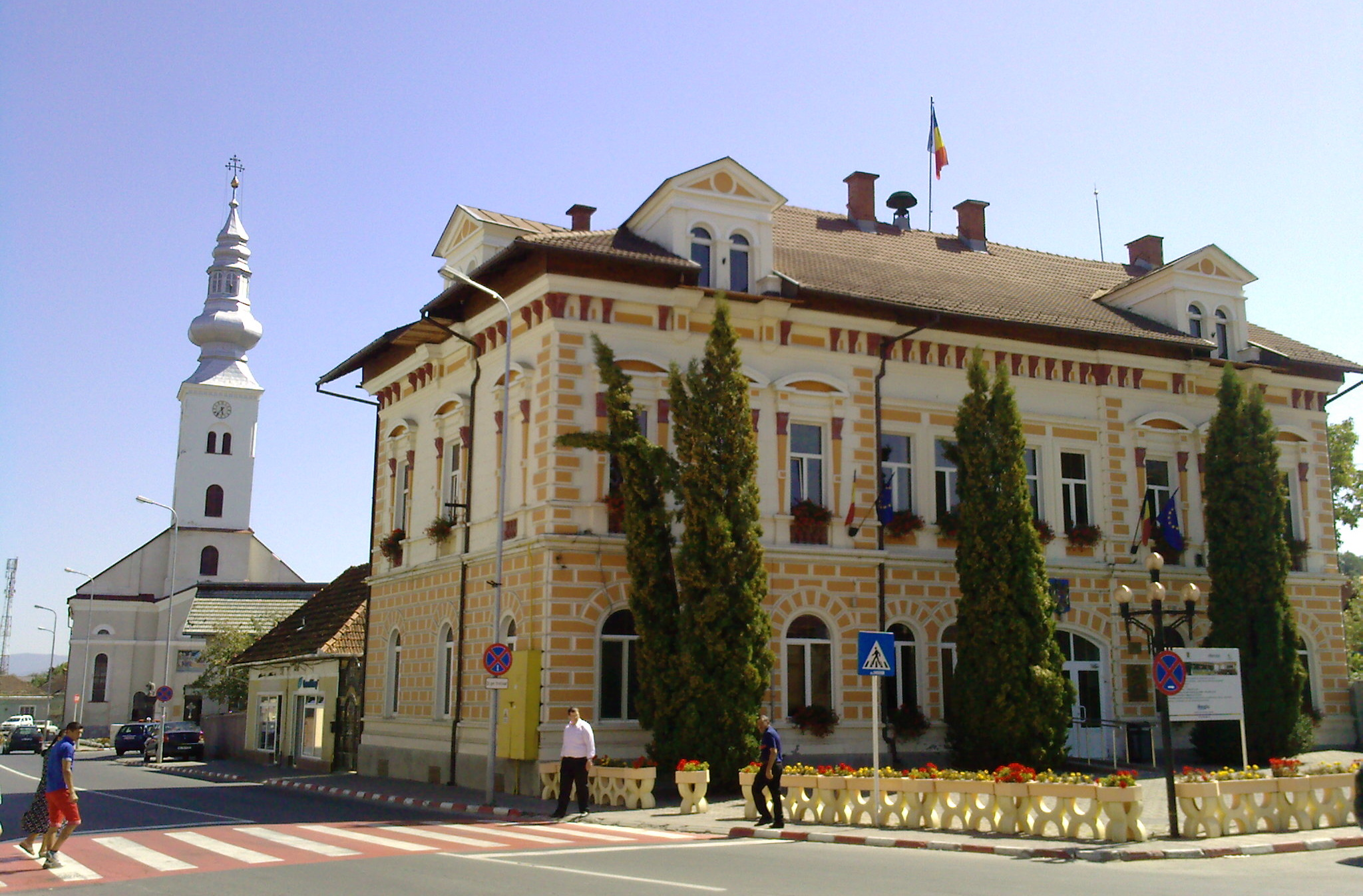 Sacele, Brasov County Romania